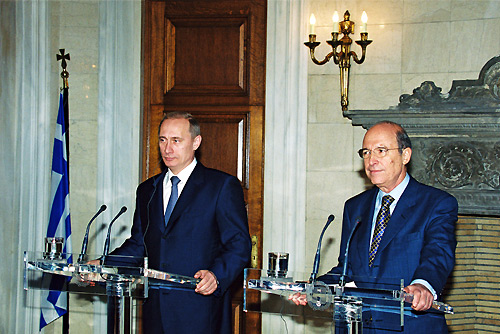 ATHENS. President Putin holding a news conference with Greek Prime Minister Konstantinos Simitis.